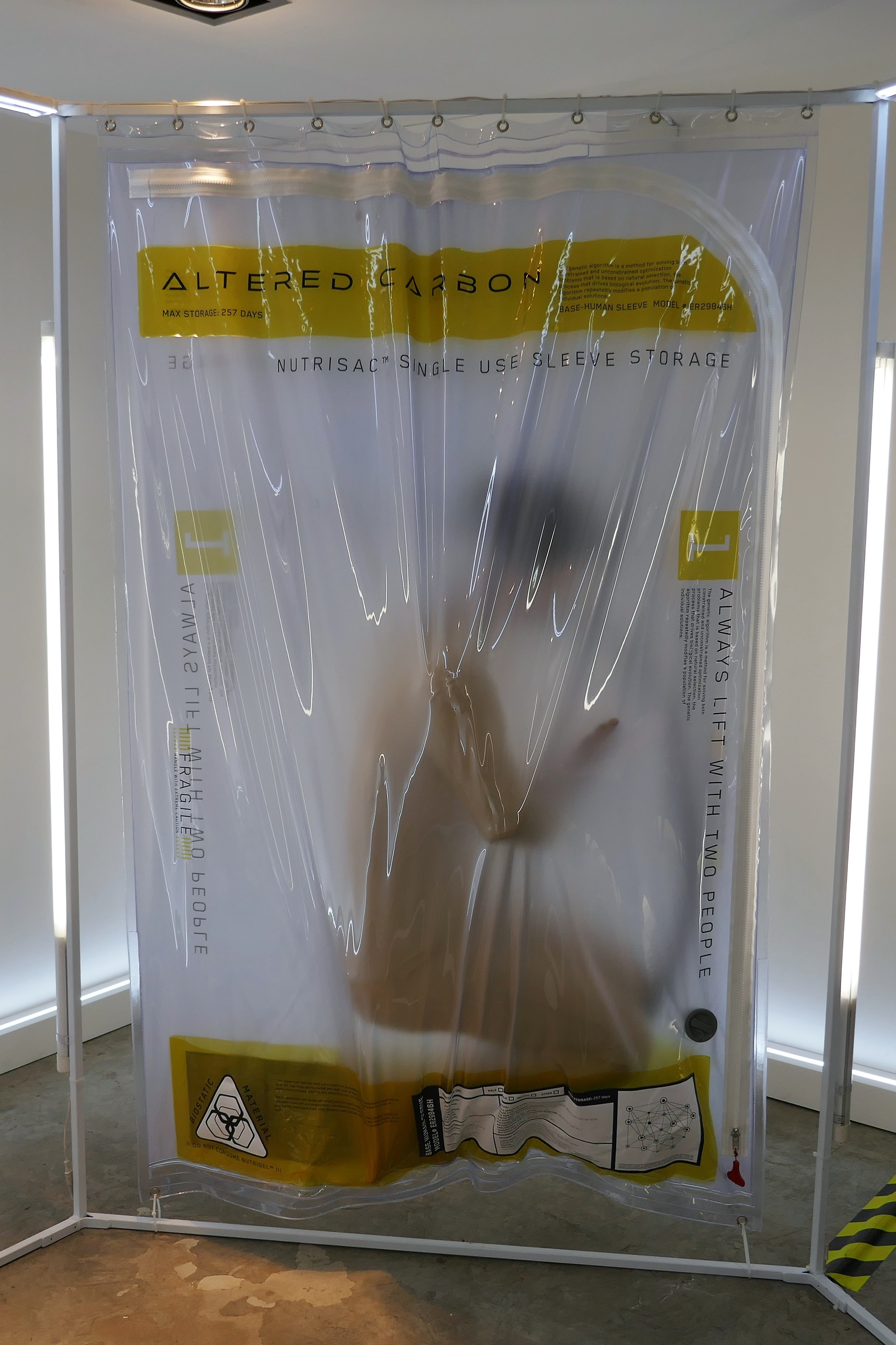 Altered Carbon - Sleeve Storage (Galerie Wanted, Paris - January 2018)